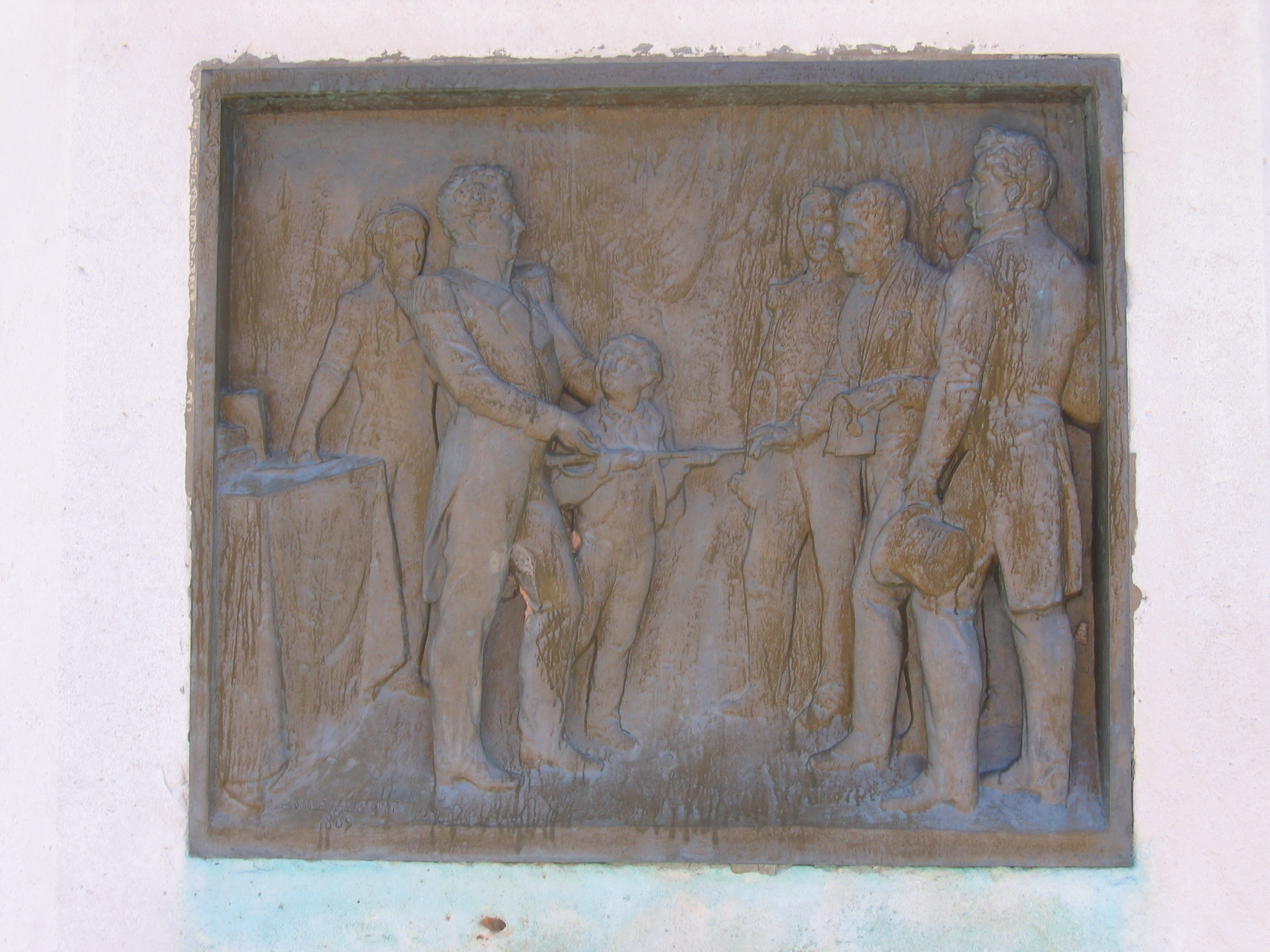 Amiral Duppre